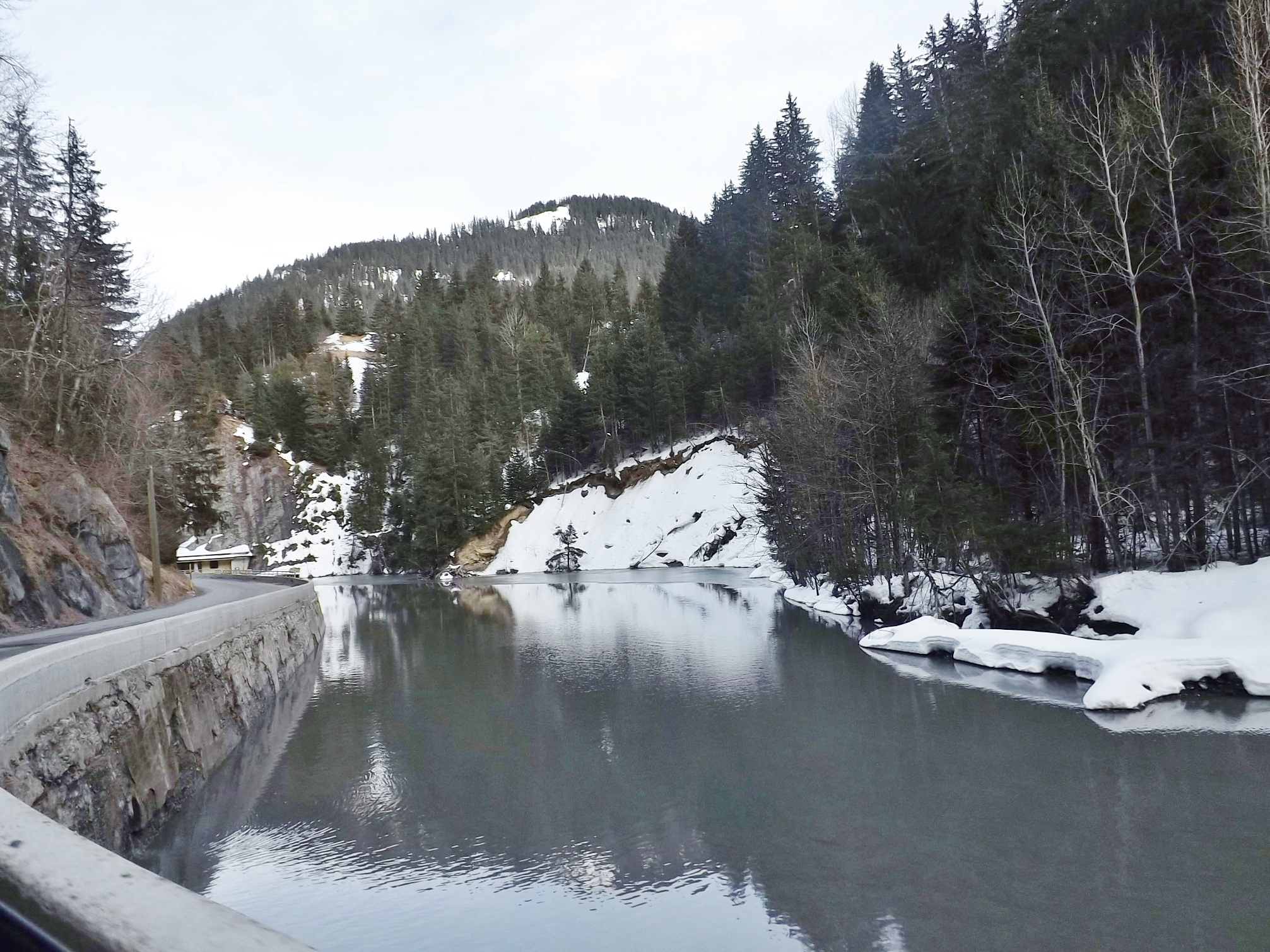 Sight of the dam on the Arvan river on Saint-Jean-d'Arves commune territory, in Savoie, France.